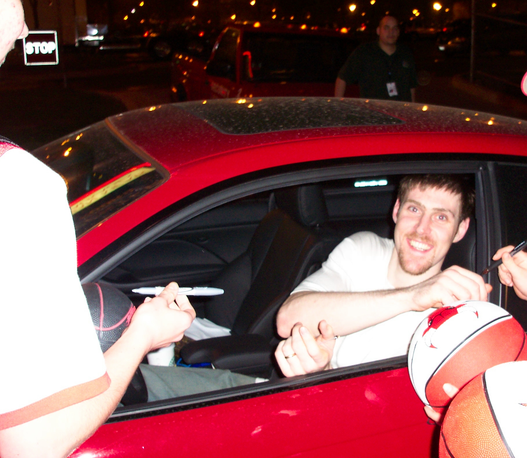 Andrés Nocioni, Chicago Bulls basketball player, taken by Tyler Paul at a Chicago Bulls game